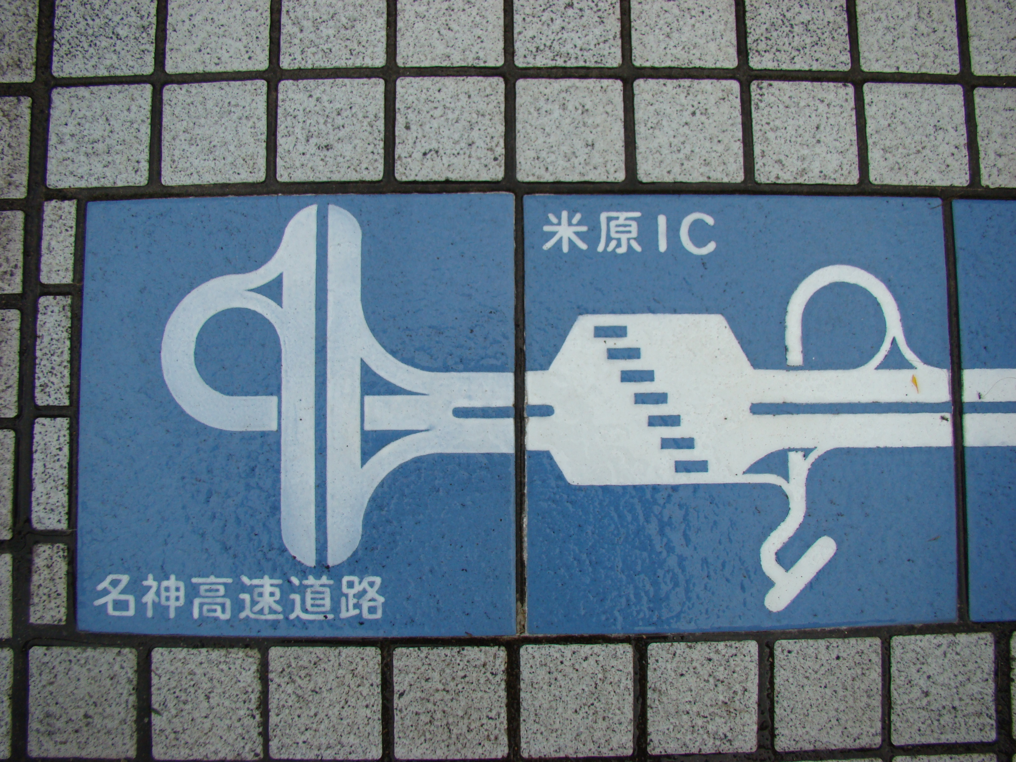 Tile which shows the shape of Maihara Junction on the Meishin/Hokuriku Expressways and Maihara Interchange on the Hokuriku Expressway, installed at Nadachi Tanihama Service Area in Chayagahara, Joetsu City, Niigata Prefecture, Japan